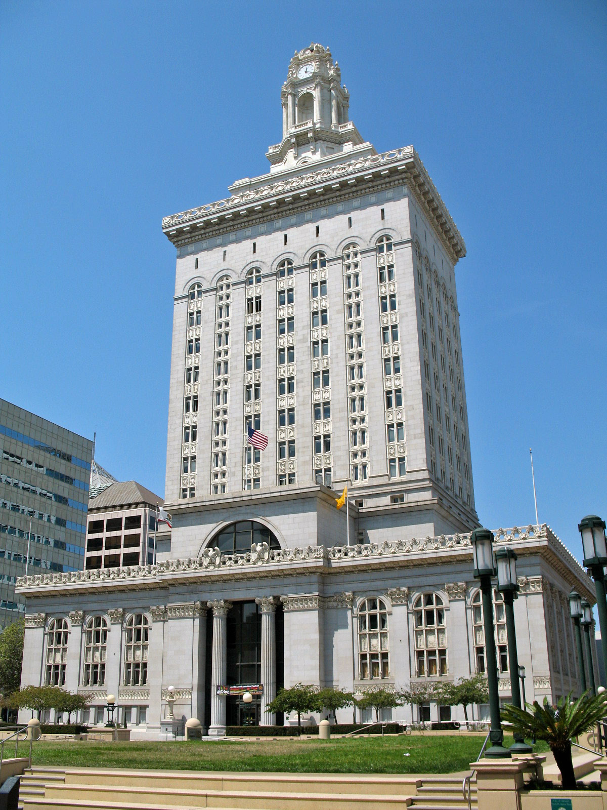 National Register of Historic Places listings in Alameda County, California. Oakland City Hall, 1 Frank H Ogawa Plaza, Oakland, CA. Photographed August 9, 2009 from the east end of Frank Ogawa Plaza.